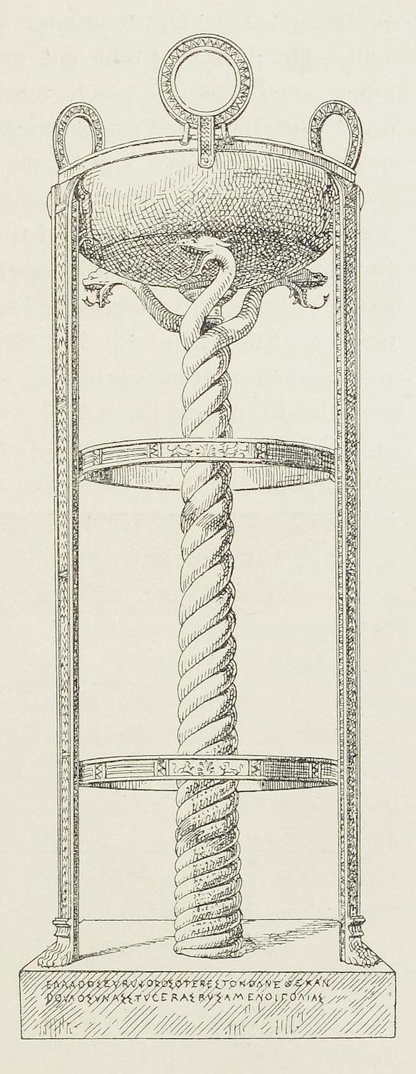 Reconstitution of the tripod of the Plataean Tripod at Delphi, by German historian and archaeologist Ernst Fabricius, 1886. The only remaining part of the tripod is the Serpent Column, now in the Hippodrome of Constantinople (Istanbul).